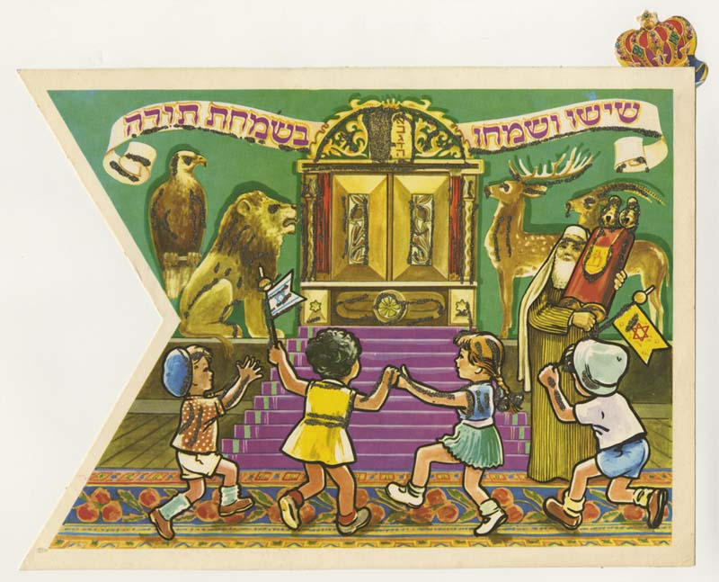 Description: Simhat Torah flag. Children dancing before a Torah ark flanked by four animals: lion, deer, gazelle and eagle. Two children carry flags topped with a candle. A bearded man wearing striped a robe stands at right carrying a dressed Torah. A small paper crown juts out above top right corner. Hebrew text on the back, framed by twisted columns. The decoration along the bottom includes a six-pointed star (Magen David), a menorah, lulav, etrog and shofar. Inscription in Hebrew: "Rejoice and celebrate in celebration of the Torah (Simchat Torah)." Date: circa 1950s-1960s Medium: printed, glitter Repository: Yeshiva University Museum Call Number: 2005.005 Persistent URL: Rights Information: No known copyright restrictions; may be subject to third party rights. For more copyright information, click here. See more information about this image and others at CJH Digital Collections. This material may be used for personal, research and educational purposes only. Any other use without prior authorization is prohibited. Please contact the Yeshiva University Museum at for further information.